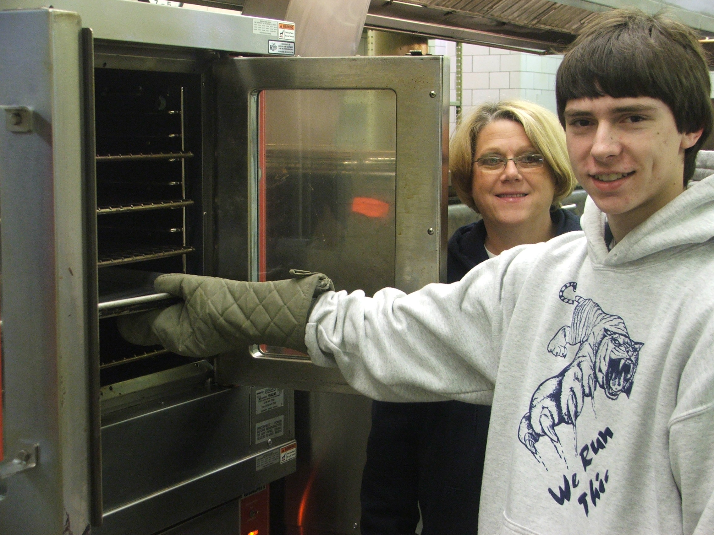 cc